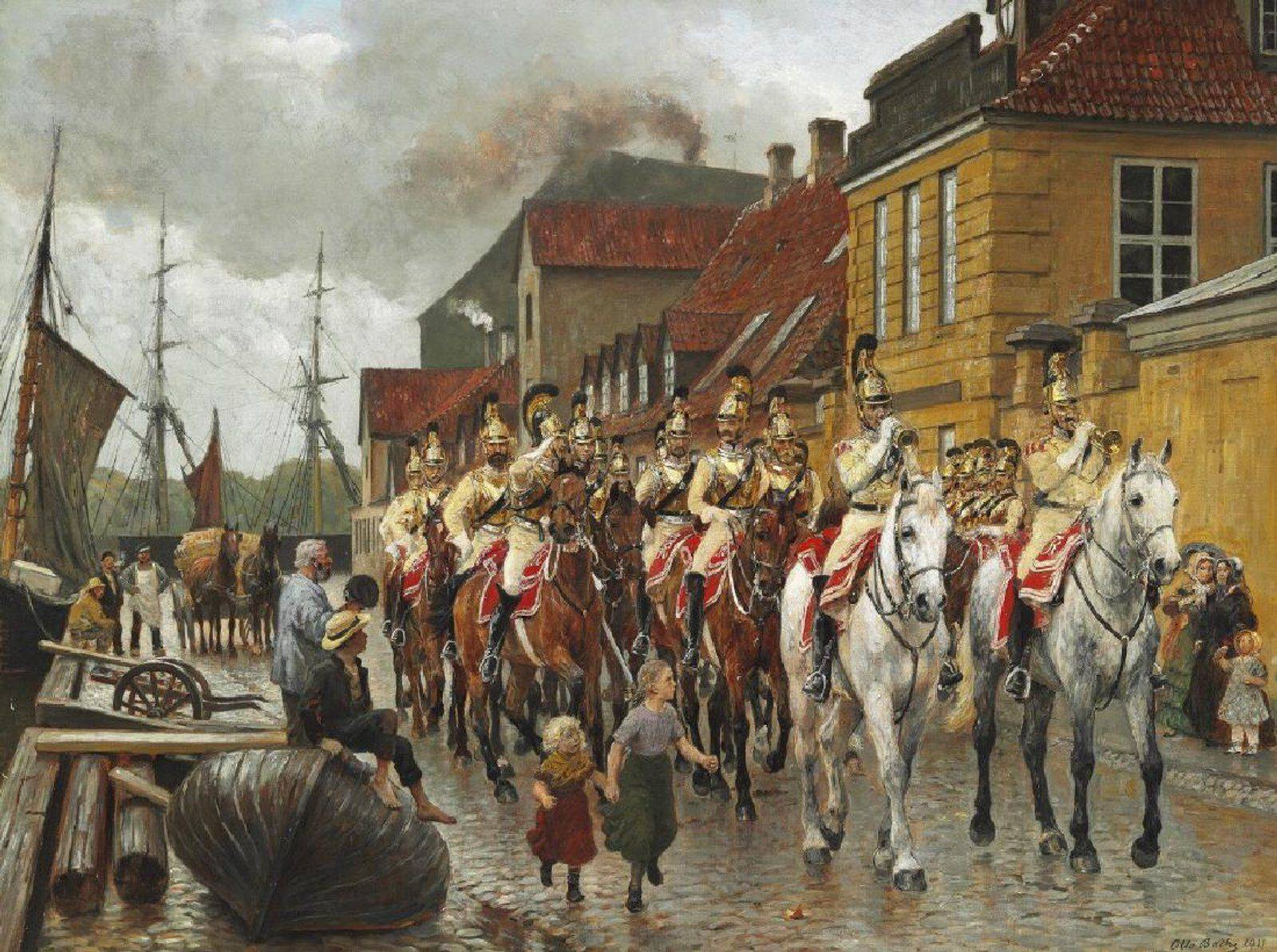 Otto Bache's painting of the Royal Horse Guards at Frederiksholms Kanal in Copenhagen, Denmark